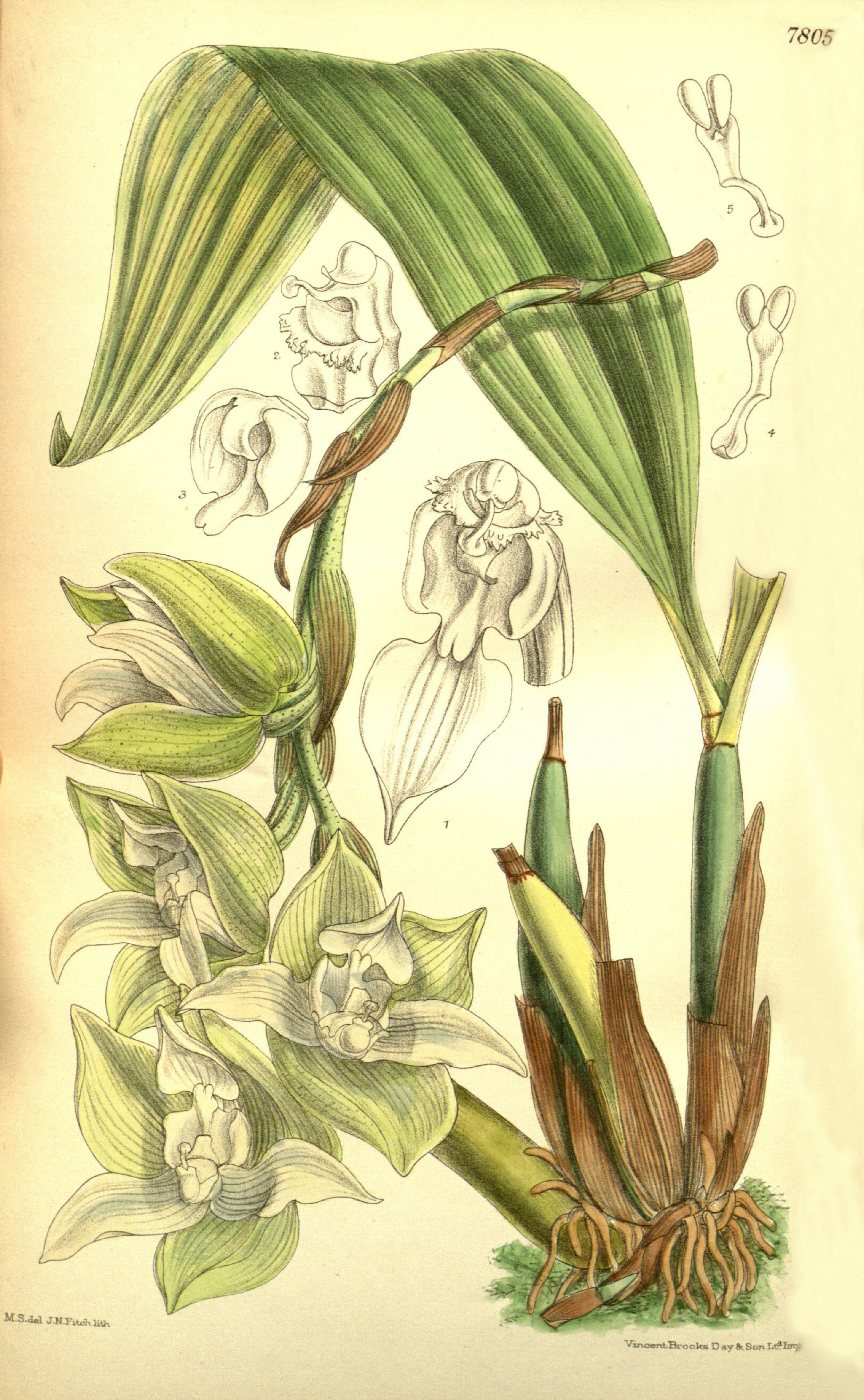 Illustration of a plant described as Trevoria chloris Note: this illustration from Curtis Bot. Mag. shows Trevoria lehmannii, not T. chloris. These 2 species are very different.